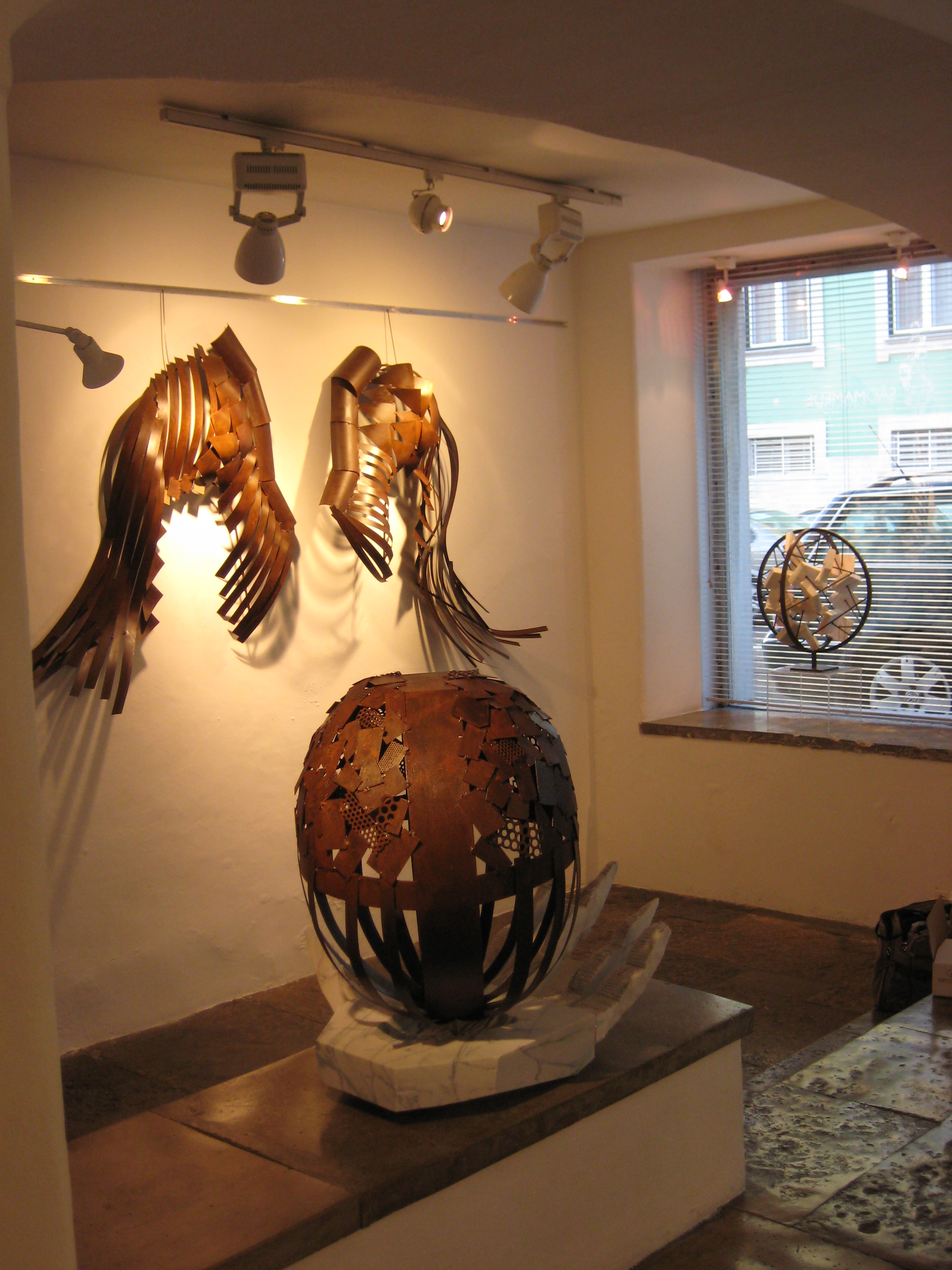 2011 Galeria São Mamede, Lisboa Peças de Maria Leal da Costa